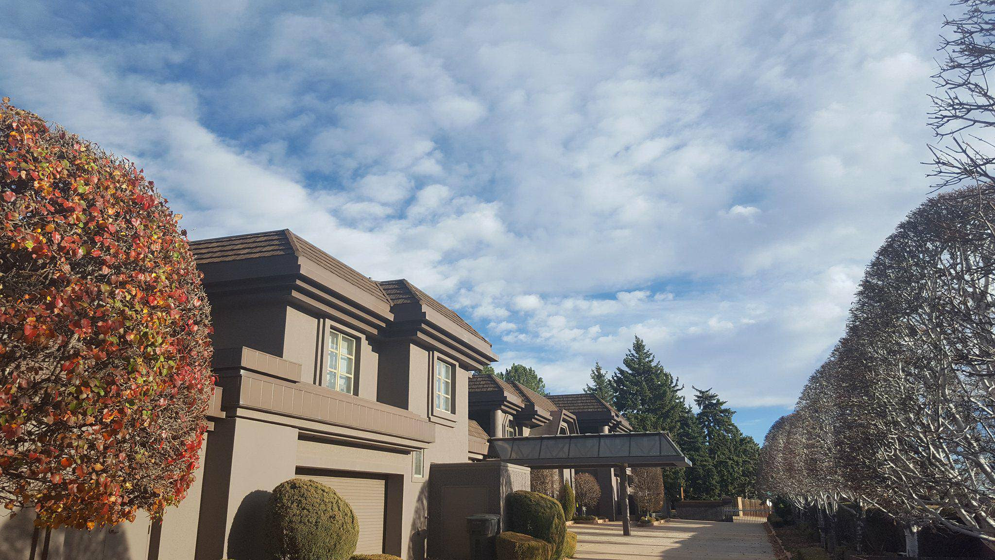 Cableland front entrance from gate.